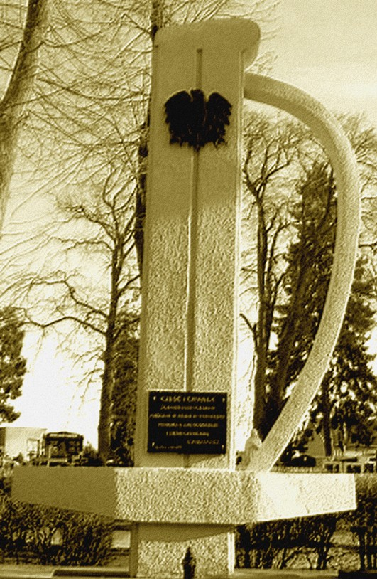 The monument towards worship of killed Polish soldiers in Gryfice (Poland)